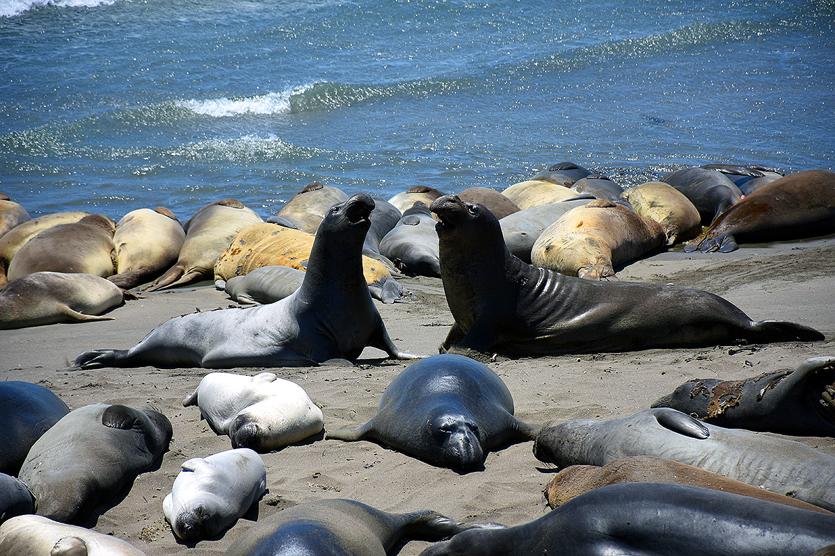 Marine Elephants